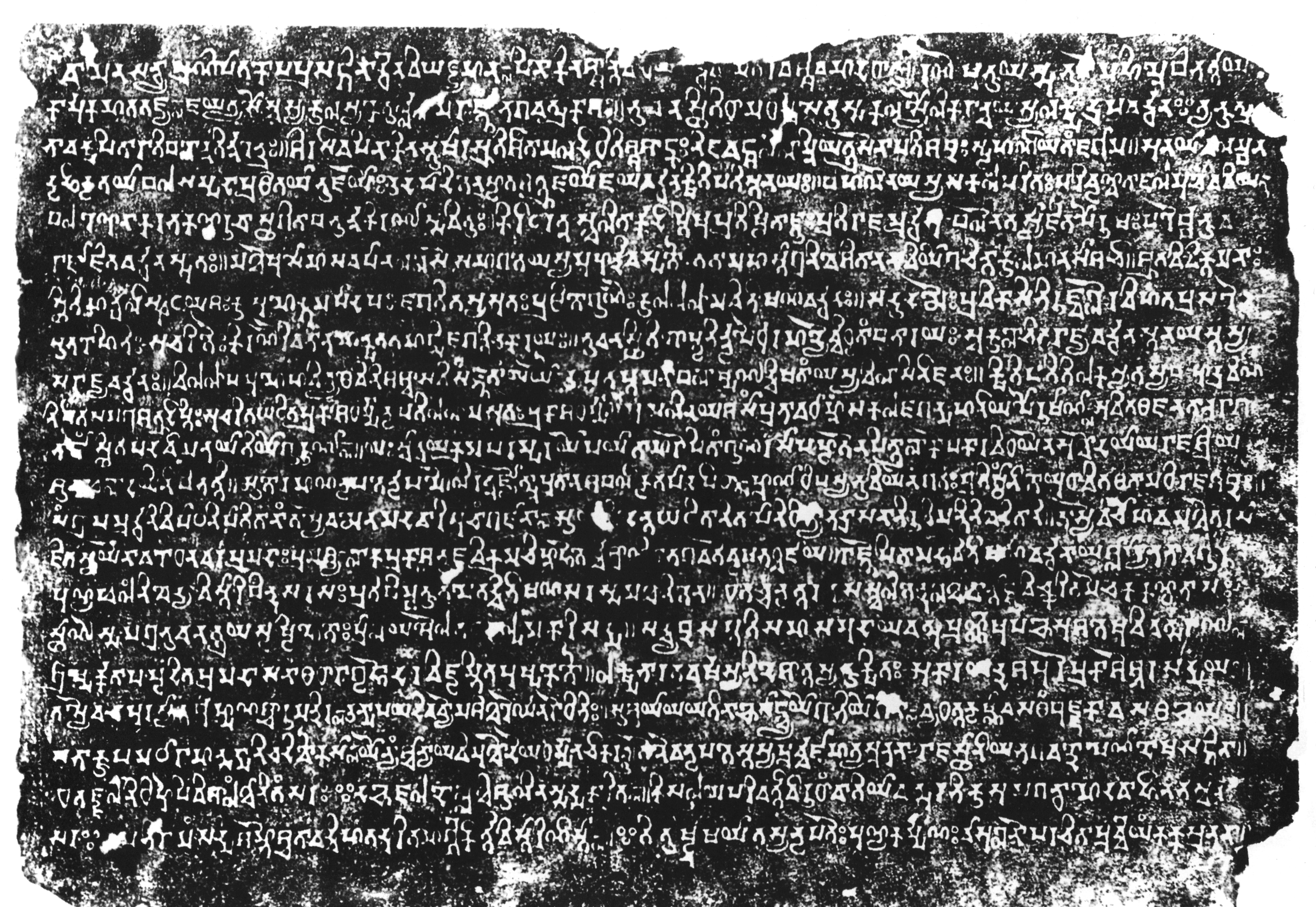 Rishtal inscription rubbing